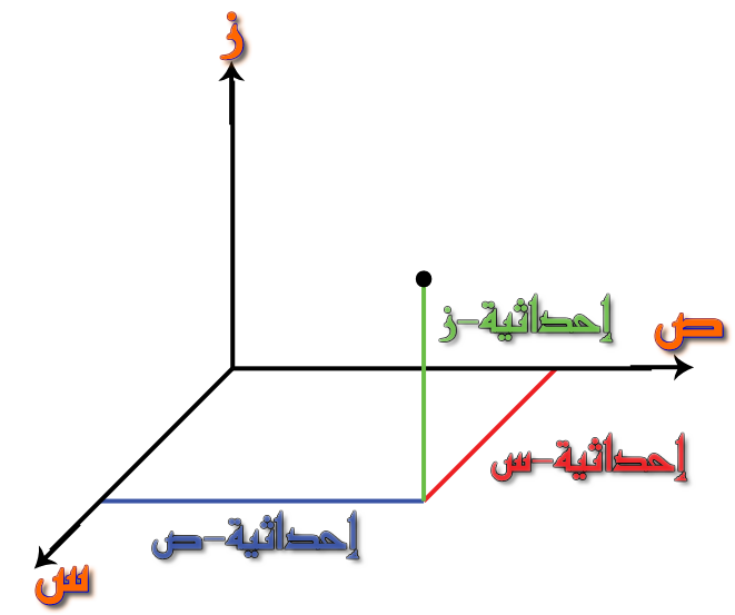 Coordinates Planes